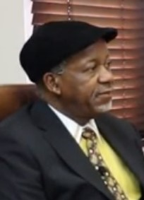 Rev. Kenneth Meshoe doing an interview in his parliamentary office.